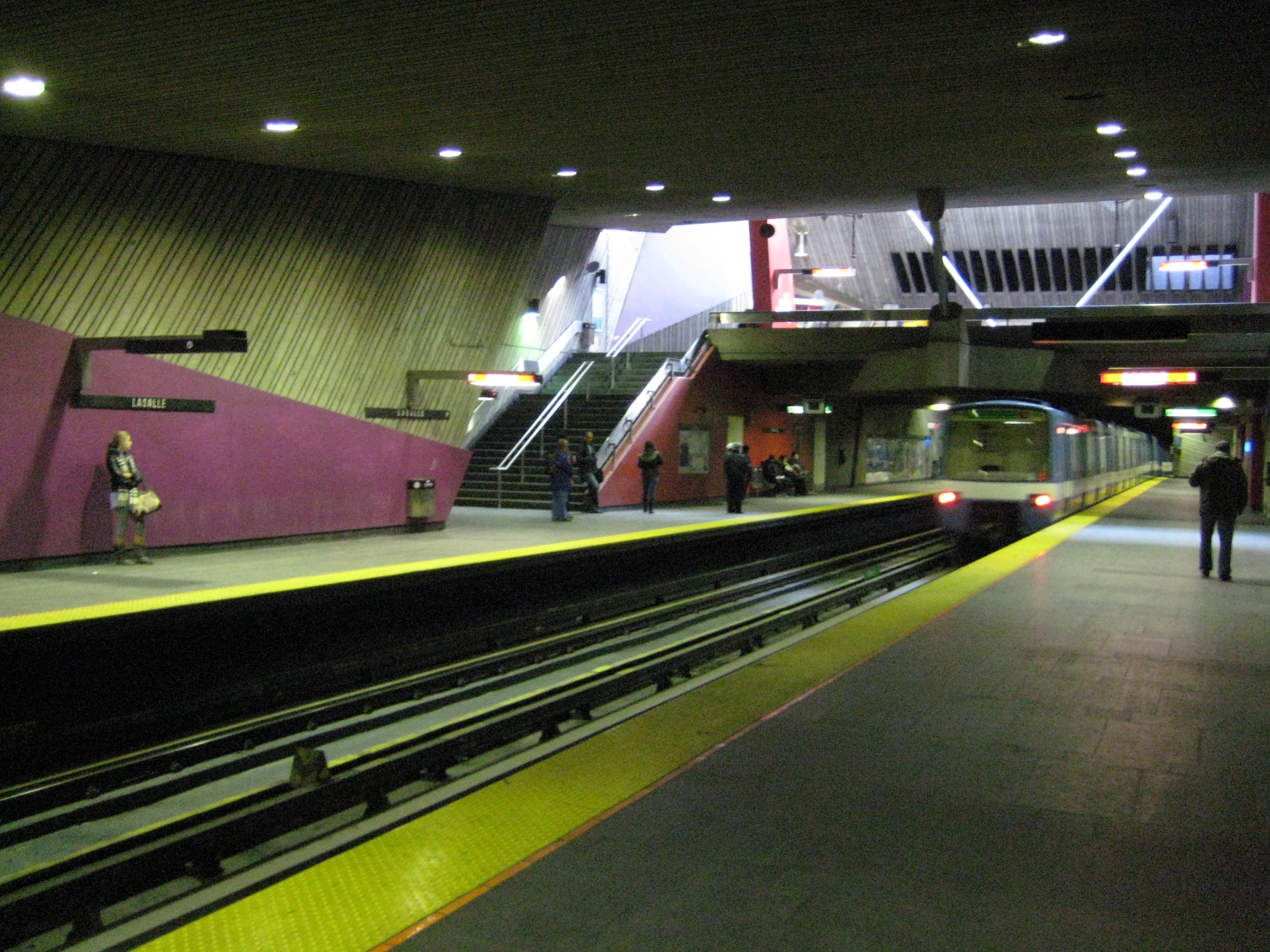 LaSalle Station, Montreal Metro